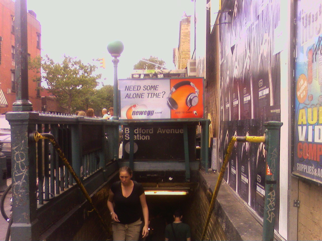 The entrance to the Bedford Avenue subway station in Williamsburg, Brooklyn.